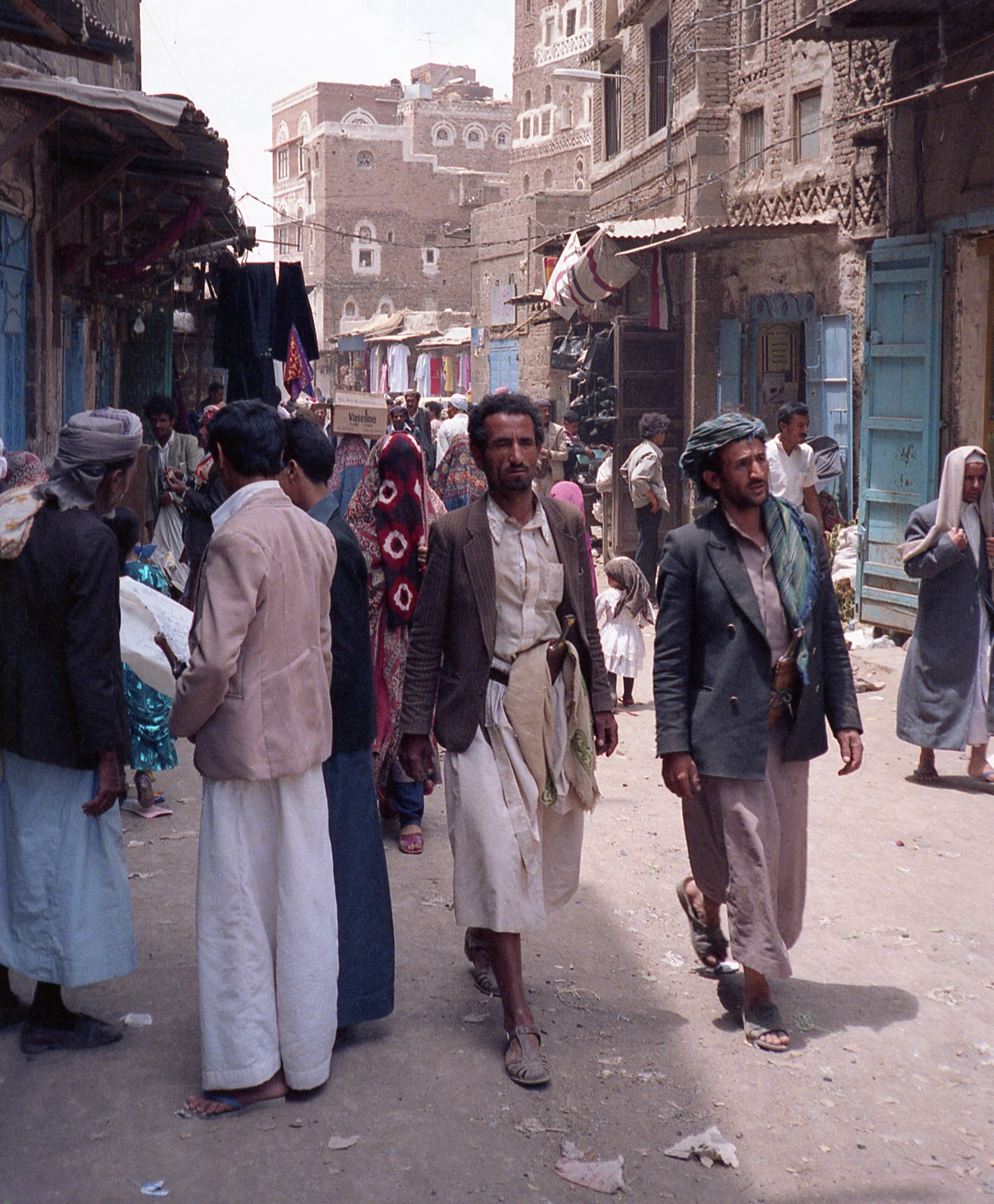 People in Sana'a, Yemen